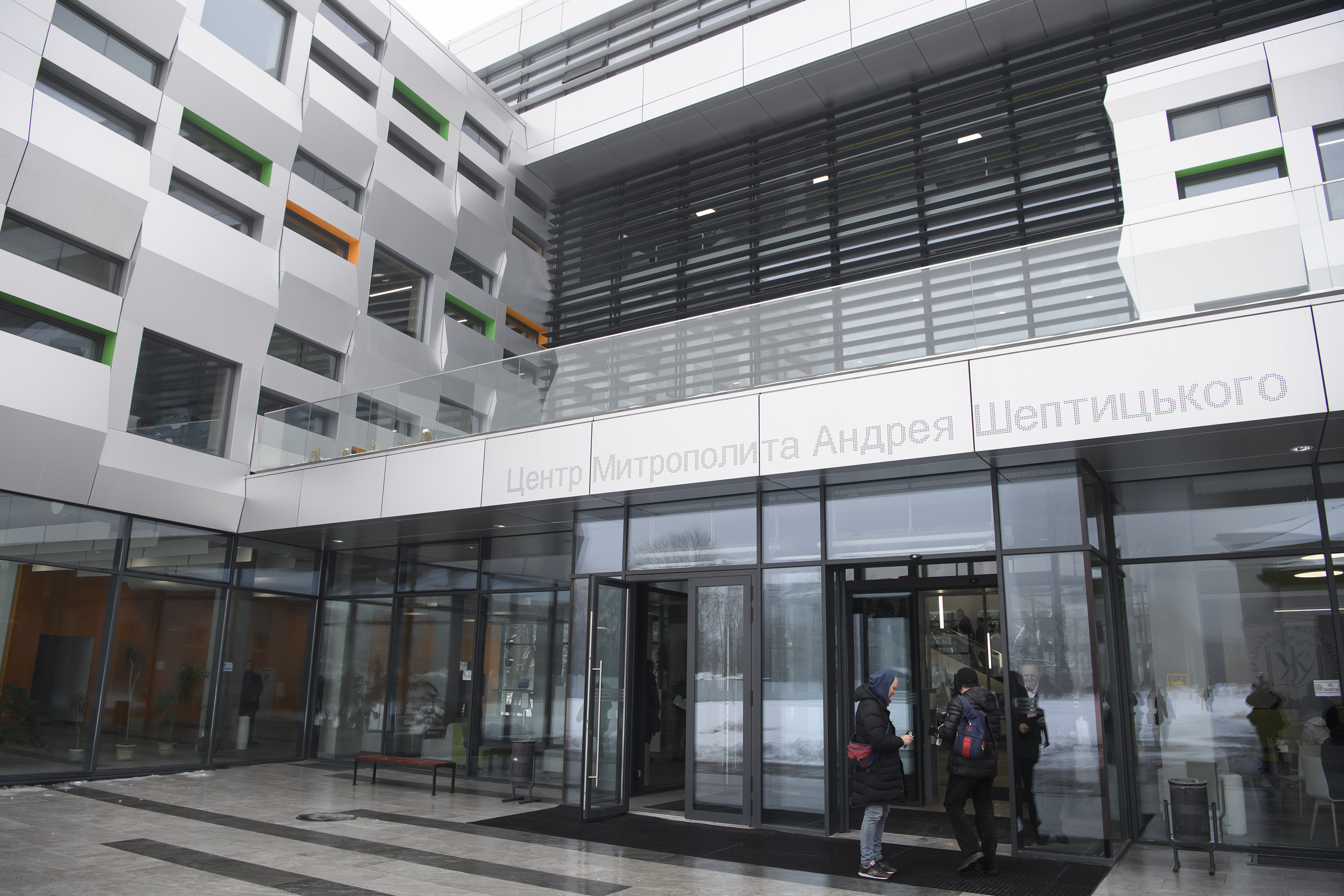 Володимир Гройсман відвідав Український католицький університет, де поспілкувався зі студентами та професорсько-викладацьким складом